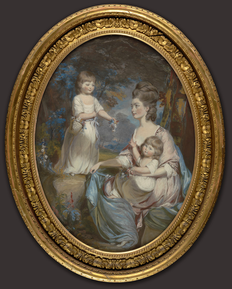 Daniel Gardner painting of Emma, Lady Tankerville and Caroline and Anna her children and some of her flowers